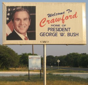 A billboard just outside of Crawford.